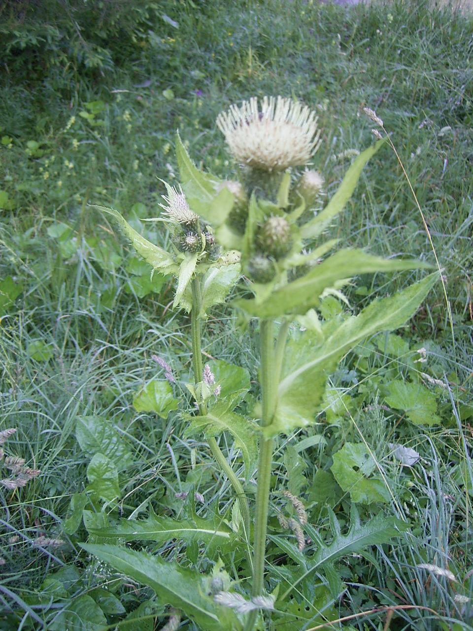 Deze foto toont de moesdistel. Ik nam de foto op 13 juli 2005 bij Mittenwald, Duitsland. This photo shows Cirsium oleraceum. I took this pic on July 13, 2005 near Mittenwald, Germany.